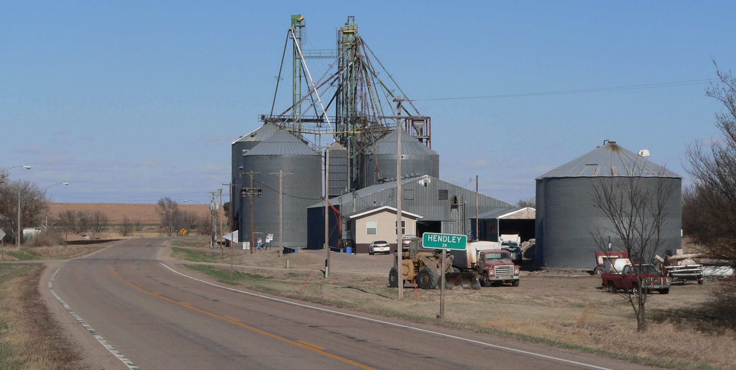 Hendley, Nebraska; seen looking eastward along Nebraska Highway 89.